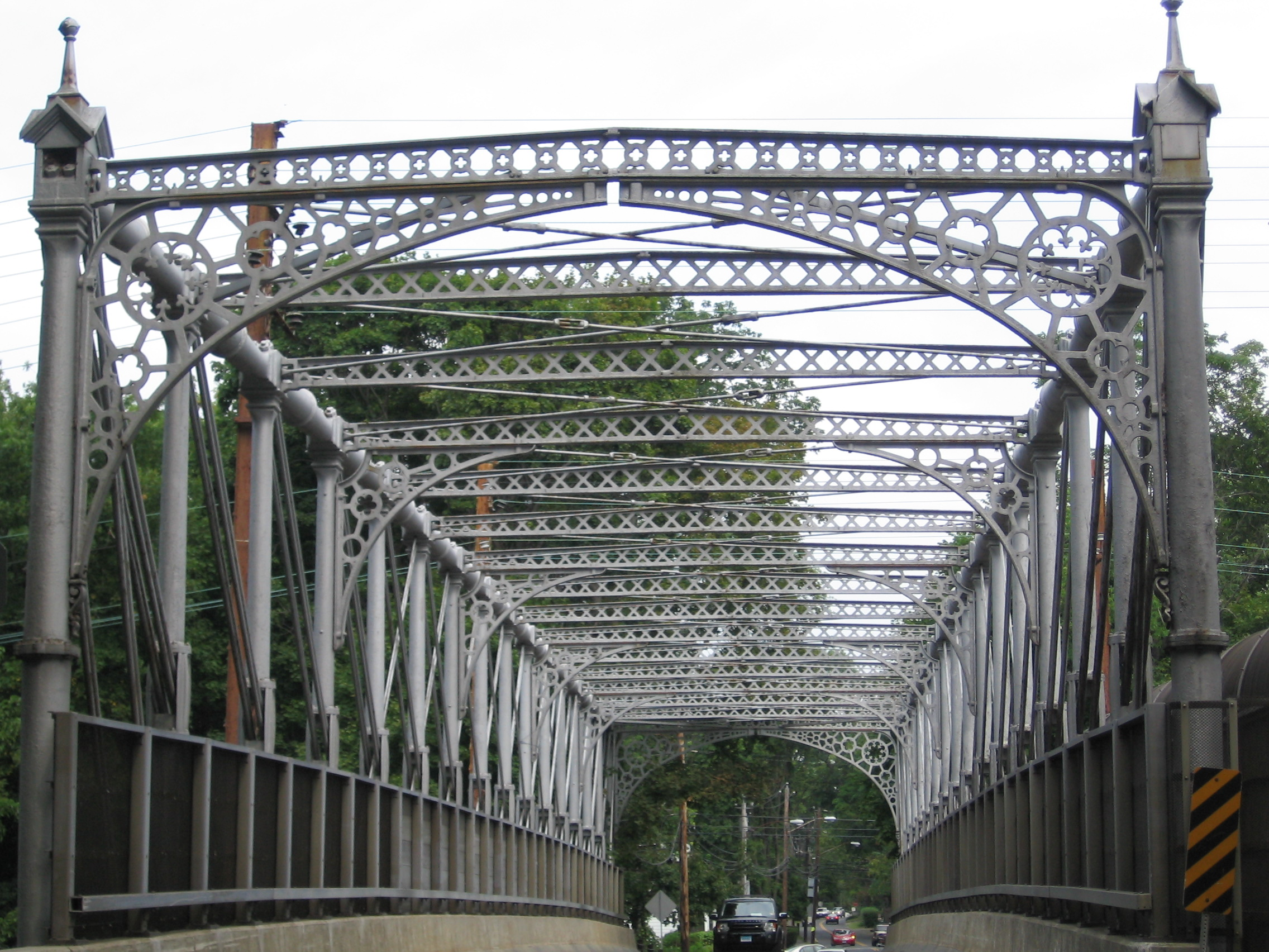 Bridge superstructure of the bridge that carries Riverside Avenue over the Metro-North Railroad tracks next to the Riverside in the Riverside section of Greenwich, Connecticut.